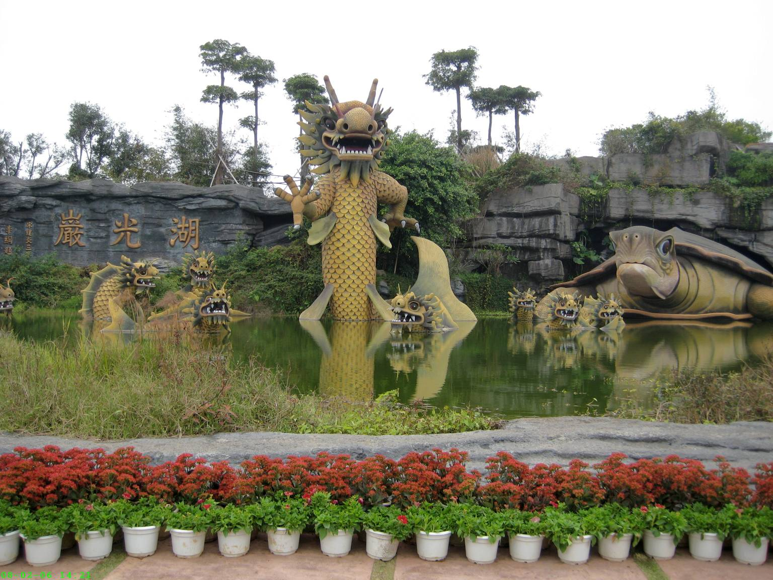 Hu Guang Yan Scenic Area (a volcanic lake) in Zhanjiang City, Guangdong Province, China